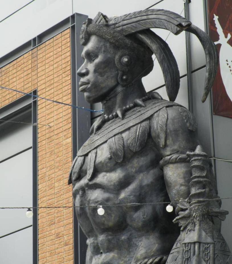 Huge statue of Shaka Zulu (upper portion), as released by image creator Ristesson HistoryPlace: Camden Market, London, England, United Kingdom